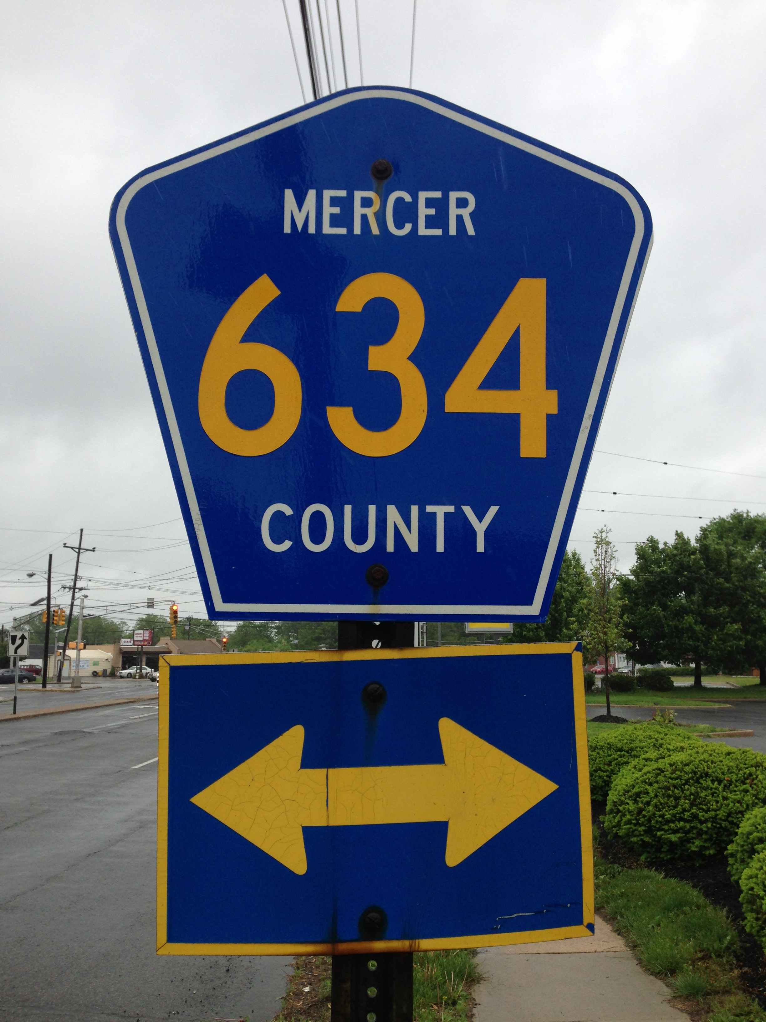 Sign for Mercer County Route 634 at the end of Olden Avenue (Mercer County Route 622) in Ewing, New Jersey